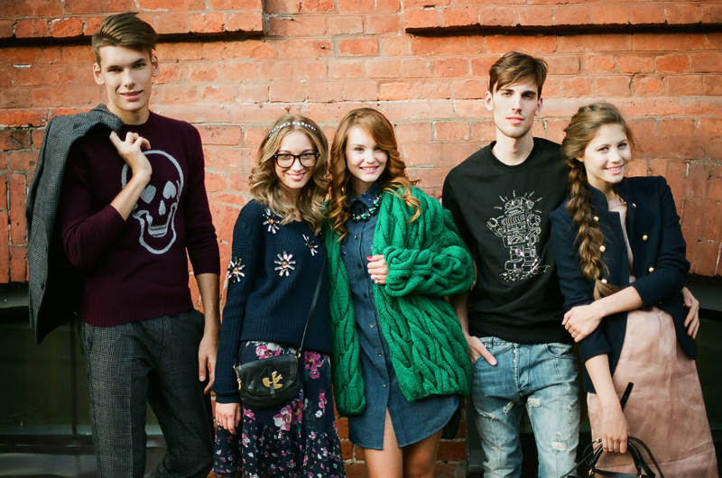 Teenagers in Moscow